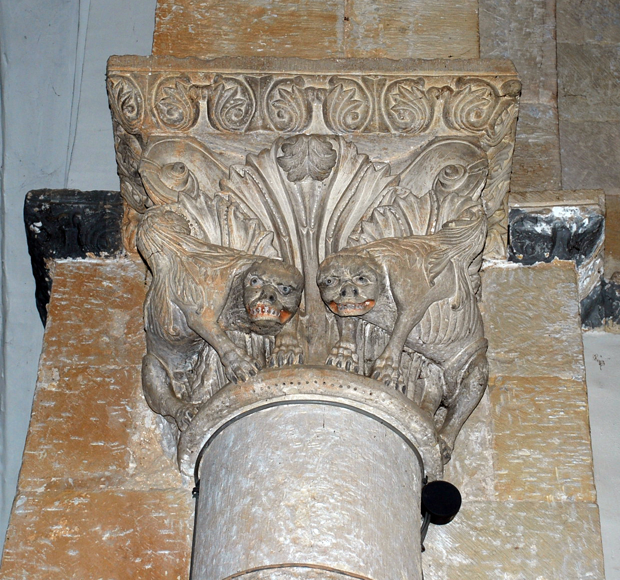 Capital of the Church of San Pelayo in Arenillas de San Pelayo (Palencia, Castile and León).